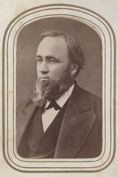 Harvey Henderson Wilcox, ca. 1860s from a Carte de Visite in the Wilcox Family Photo Album.